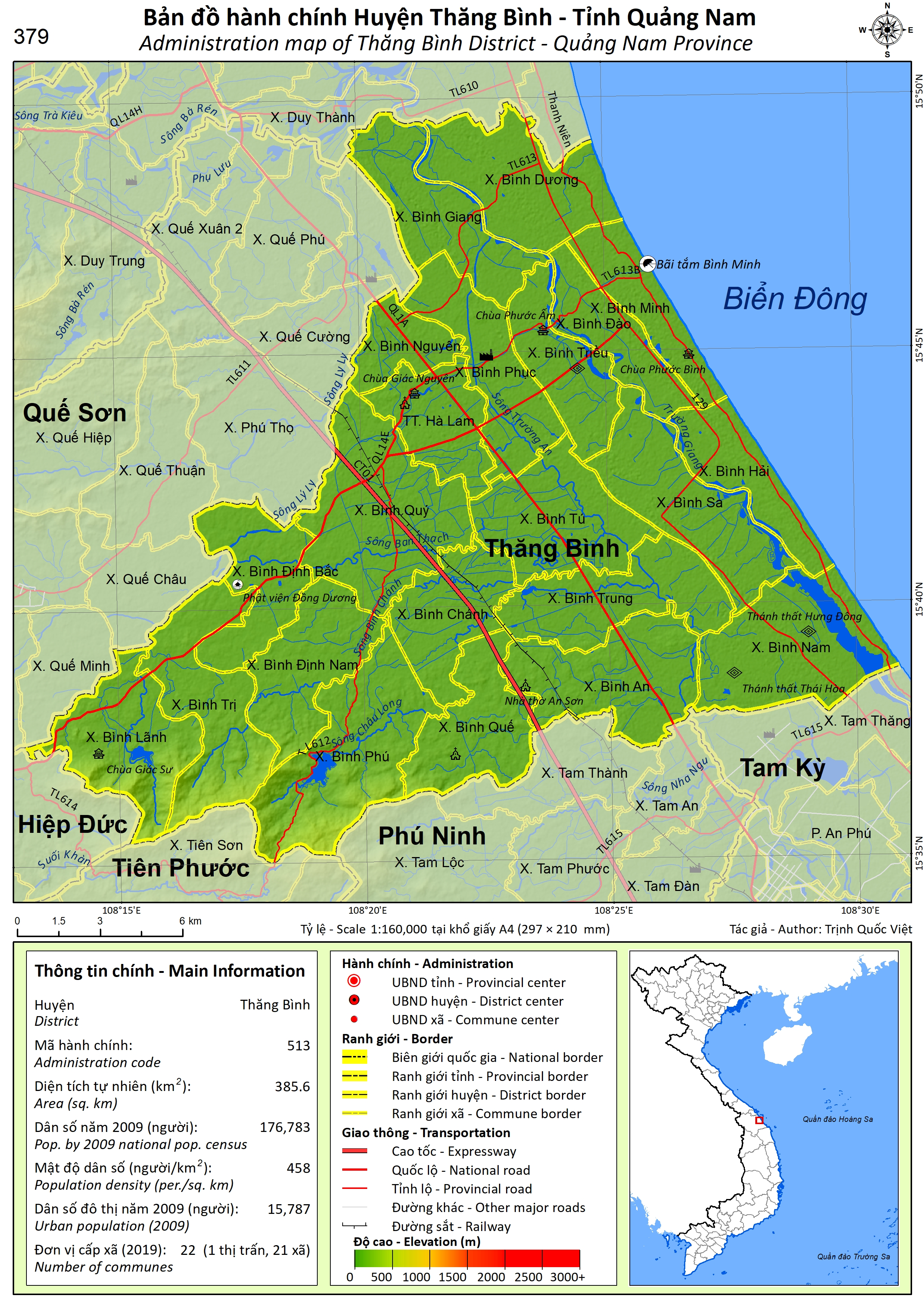 Administration map of Thang Binh District